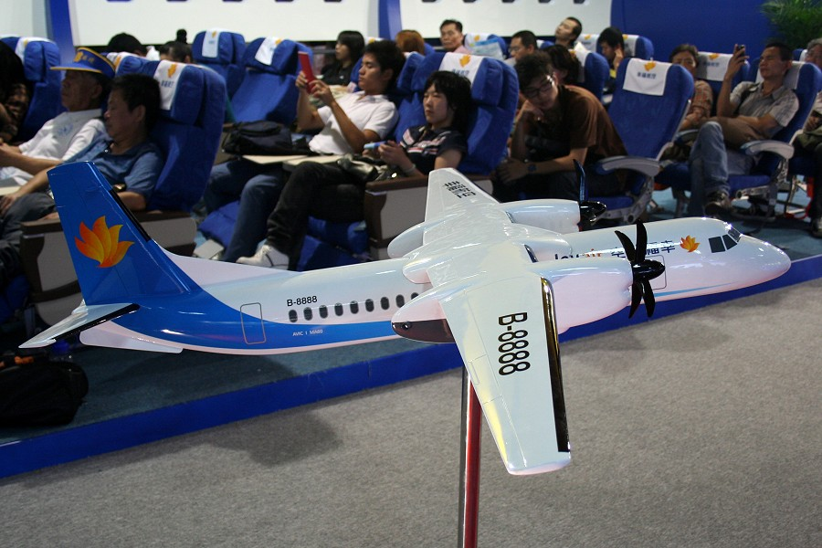 Model of a MA60 from chinese airline Joy Air seen at the Airshow China 2008 at Zhuhai